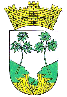 rfwhrwrwfshssf